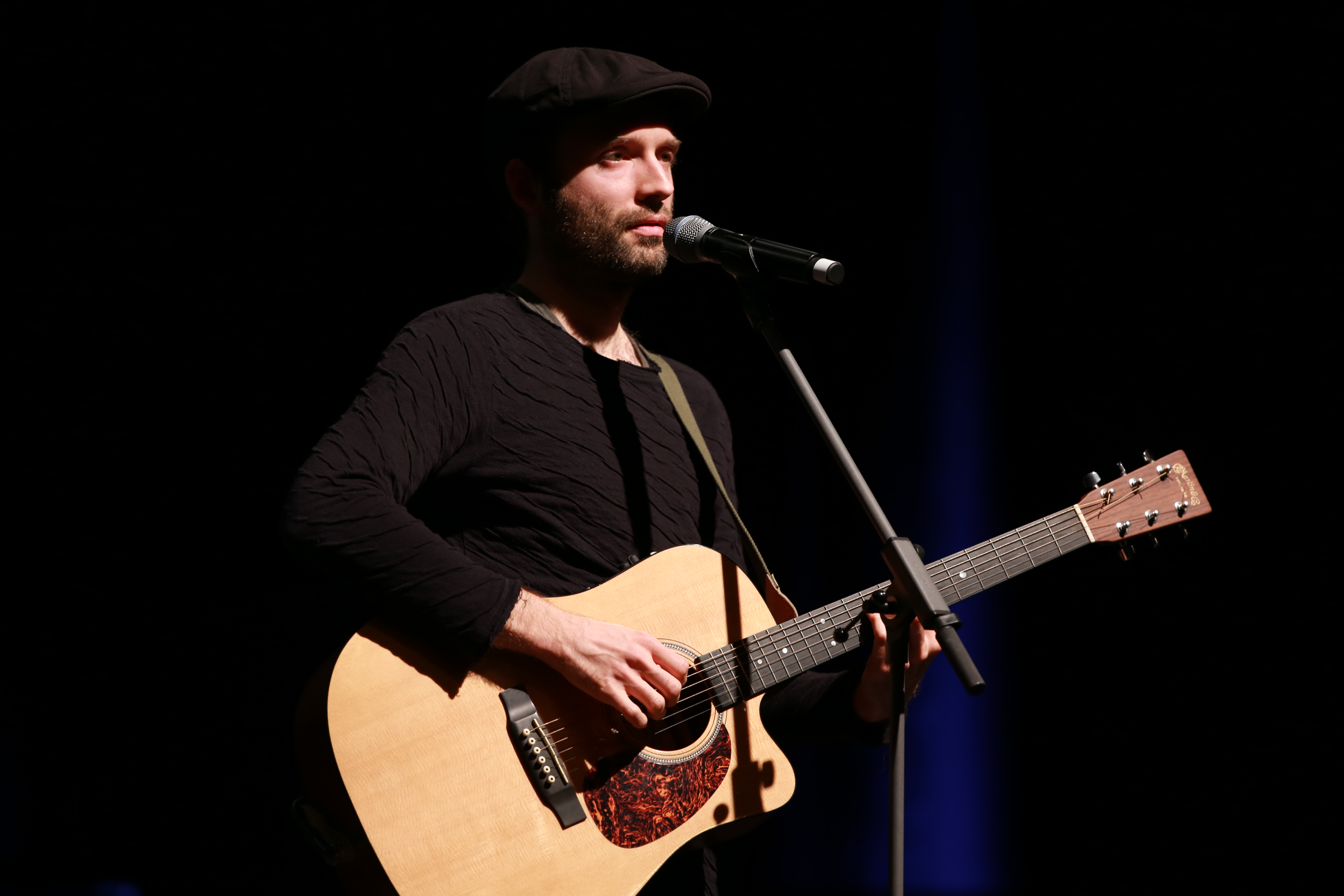 Marc-Uwe Kling, 34th Chaos Communication Congress, Leipzig.